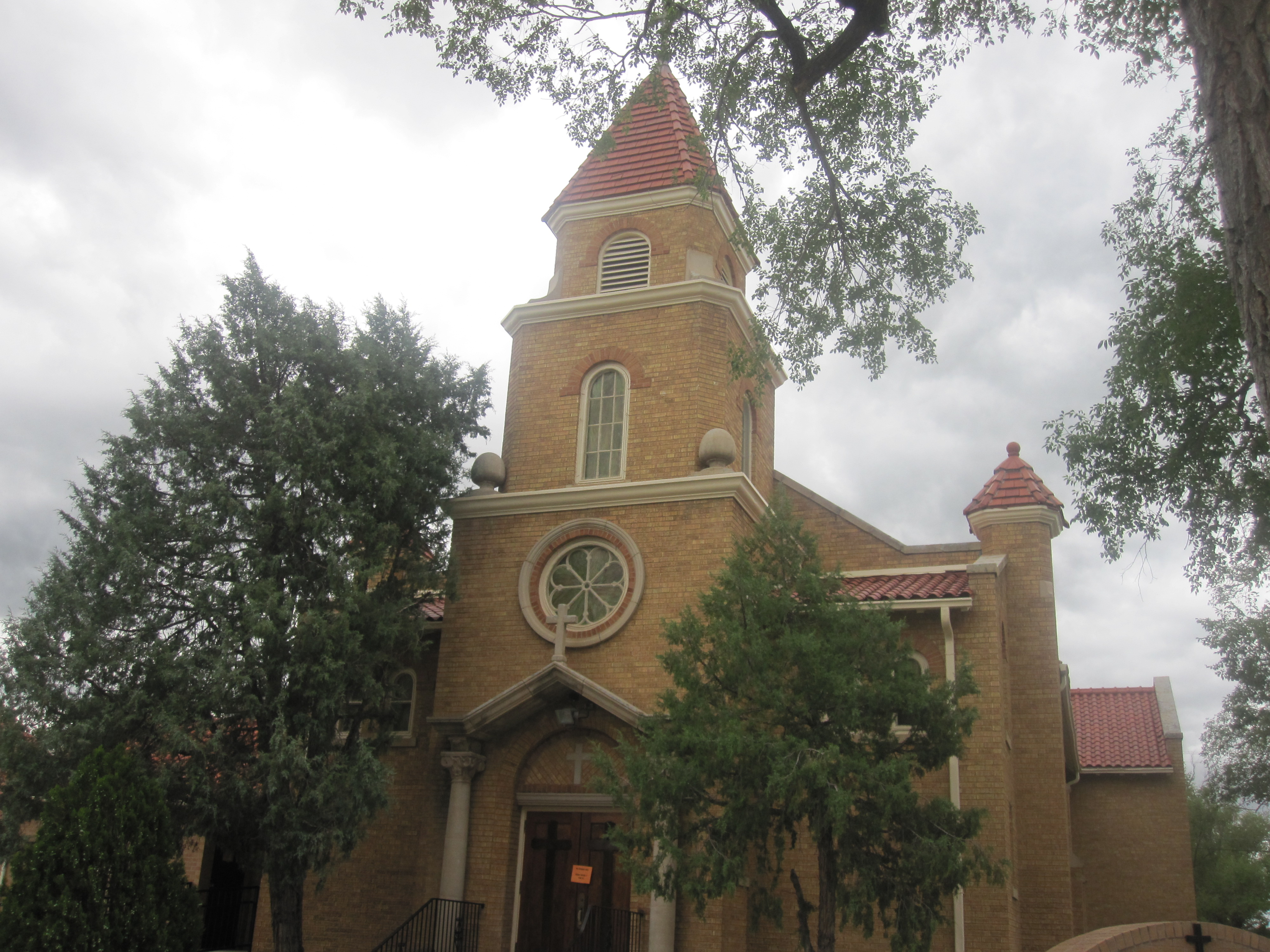 I took photo in Las Animas, CO, with Canon camera.